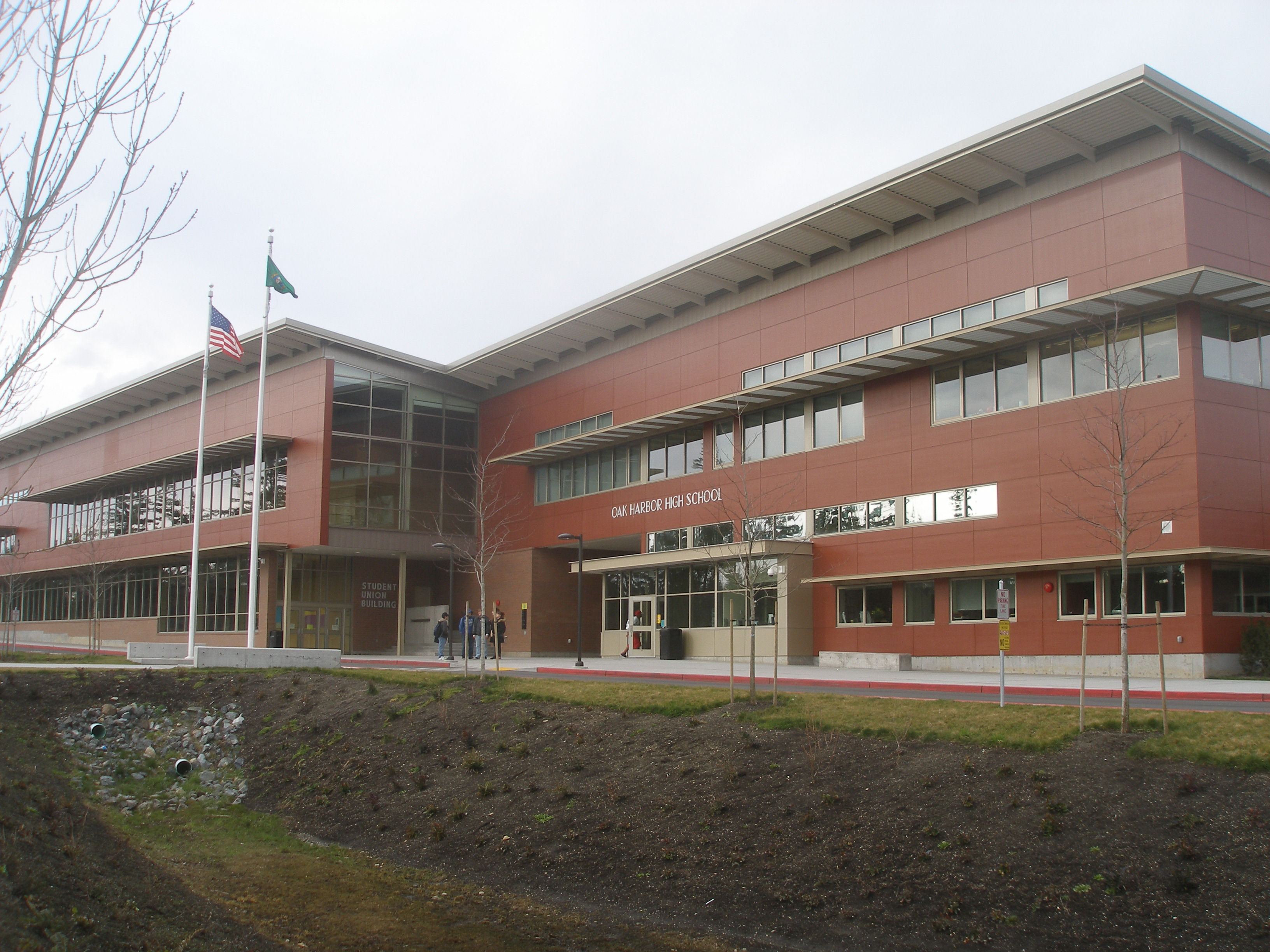 Southern entrance to Oak Harbor High School. Remodel of Adminstrative wing and Commons completed for 2010 school year.